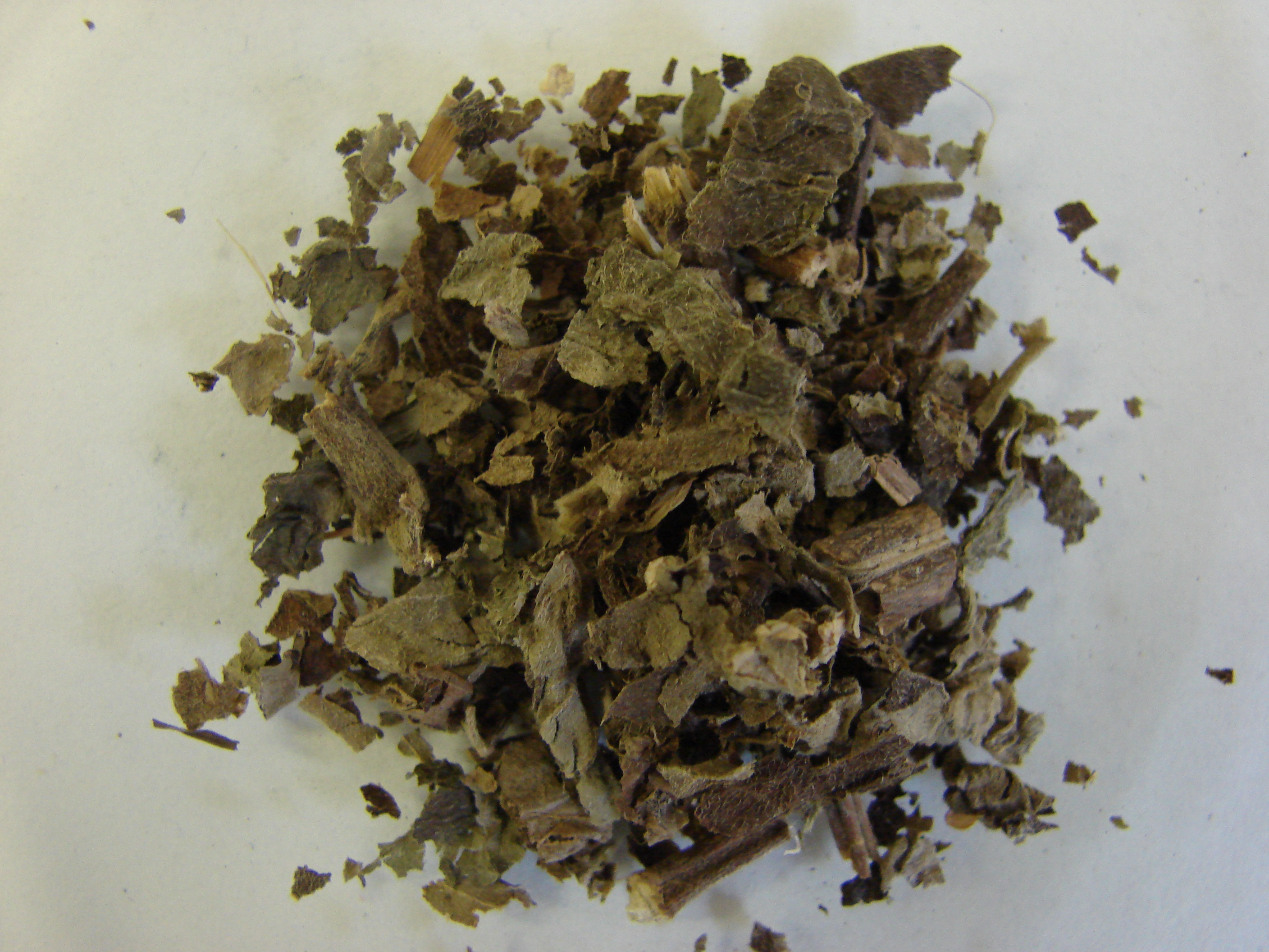 Patchouli folium, Pogostemon cablin